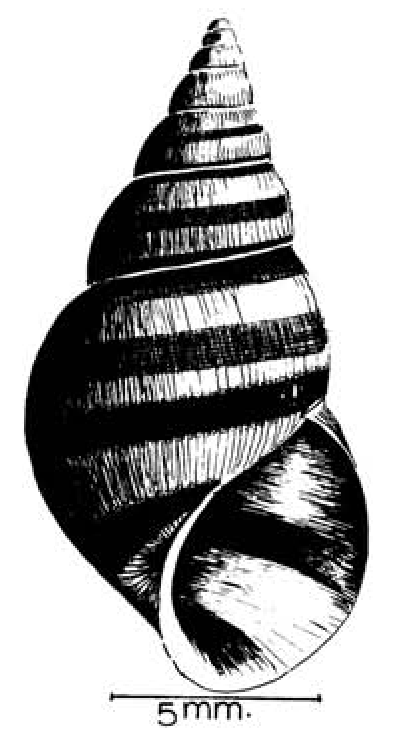 Drawing of apertural view of the shell of Cleopatra ferruginea.